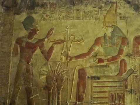 Freskos in the Abydos Temple